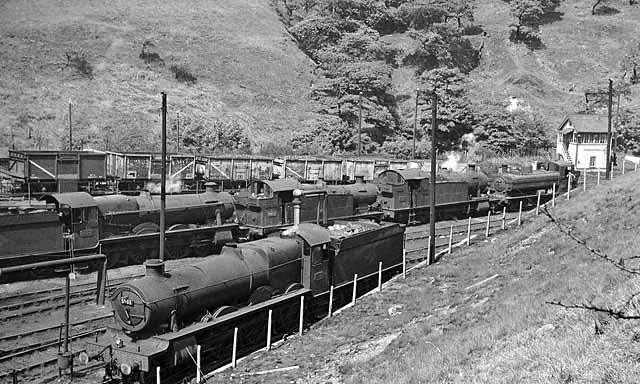 Duffryn Yard (Port Talbot) Locomotive Shed. View northward, with the line to Maesteg going away to the right. Thirteen years after the previous view SS7789 : Duffryn Yard (Port Talbot) Locomotive Shed, it seems that the Depot has now acquired some tender engines, as two 'Halls' are in view: 5903 'Keele Hall' and 6974 'Bryngwyn Hall', along with 0-6-2T No. 6633, 2-8-0T No. 4256 and 0-6-0T No. 4695 - and no dirty sheep.